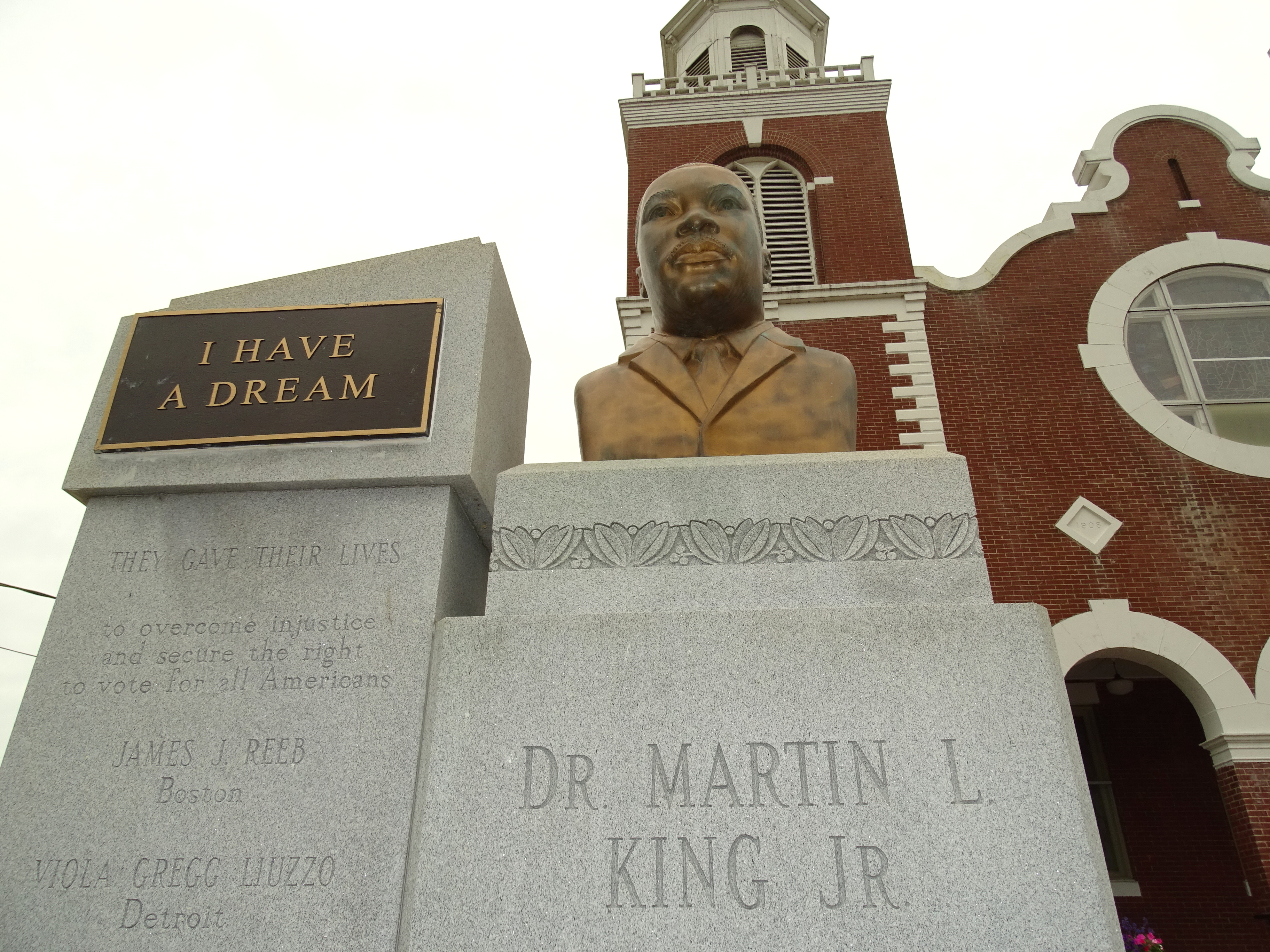 Brown Chapel African Methodist Episcopal Church - With MLK Memorial - Selma - Alabama - USA - 02